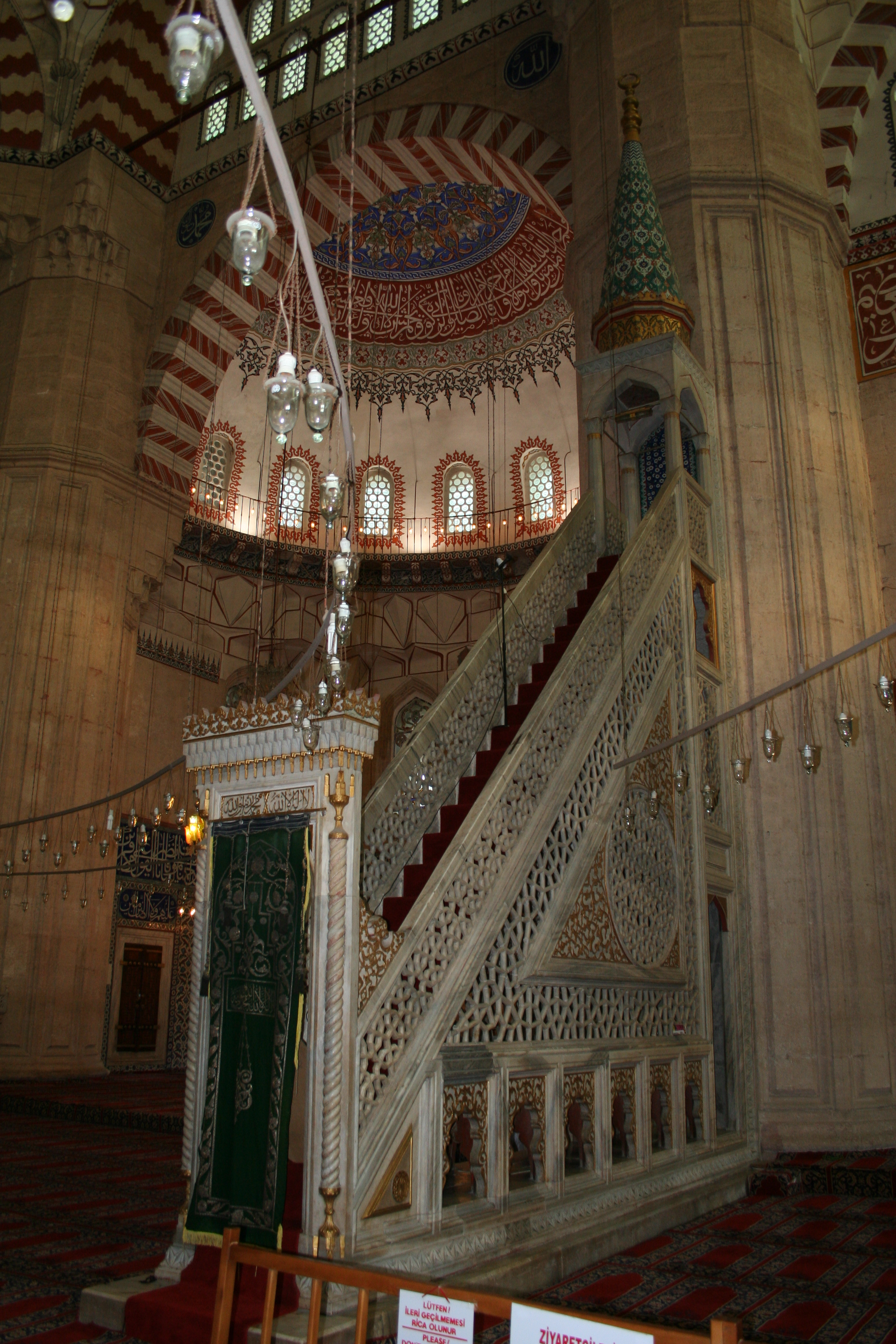 Selimiye Mosque interior and pulpit (minber).